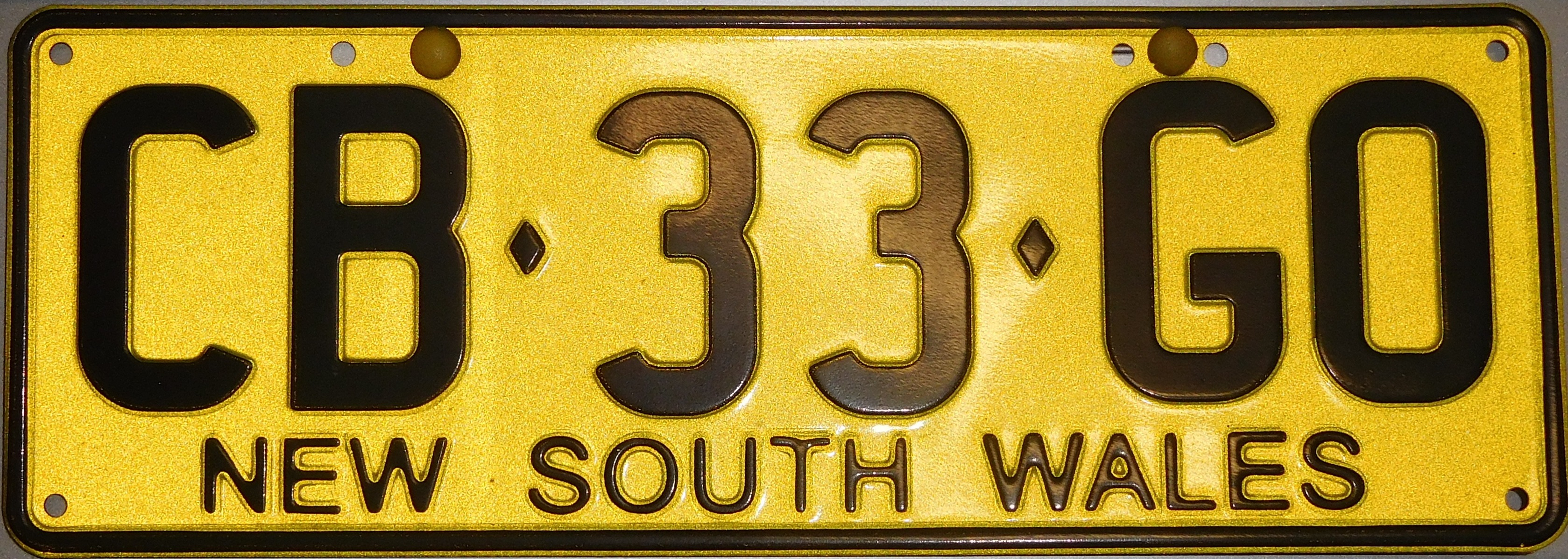 General issue vehicle registration plate of New South Wales, standard size, CB-33-GO. Registered to a Porsche 911.